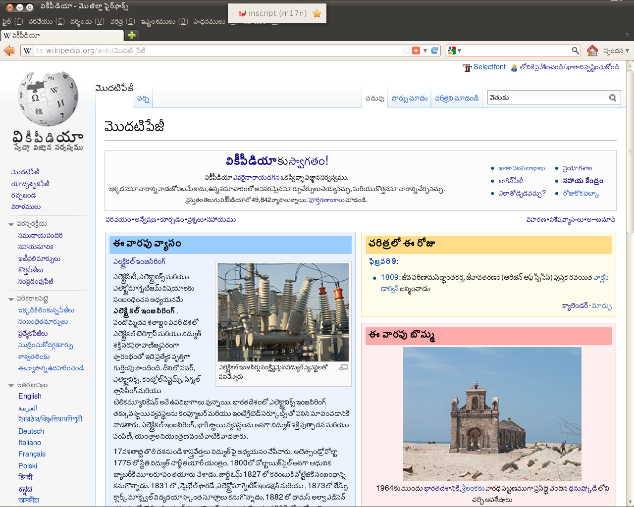 Telugu Wikipedia First Page on 9 Feb 2012